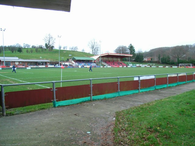 G. F. Grigg Latham Park